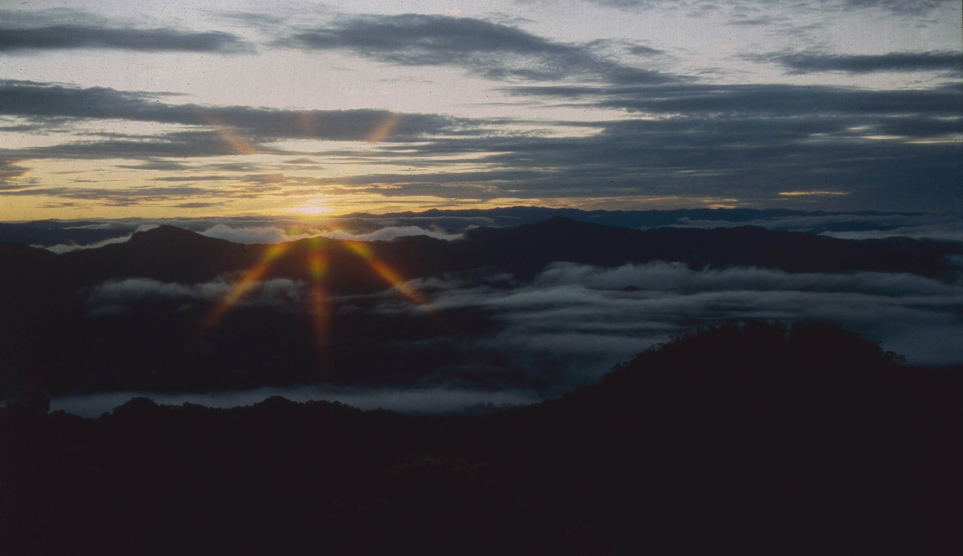 Sunrise from the ridge of Bukit Pagon, looking East over Sarawak towards Kalimantan. From Ulu Temburong expedition 1982. Alan Cassidy photo.